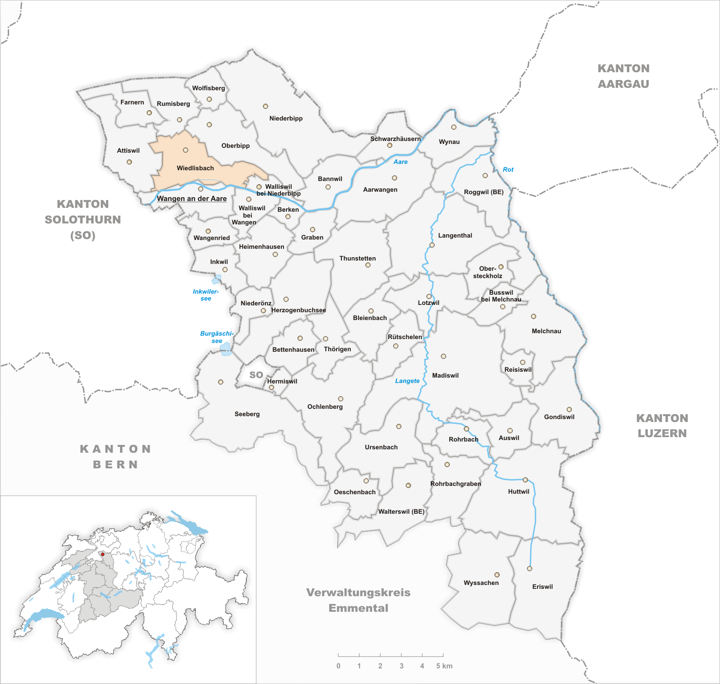 Municipality Wiedlisbach